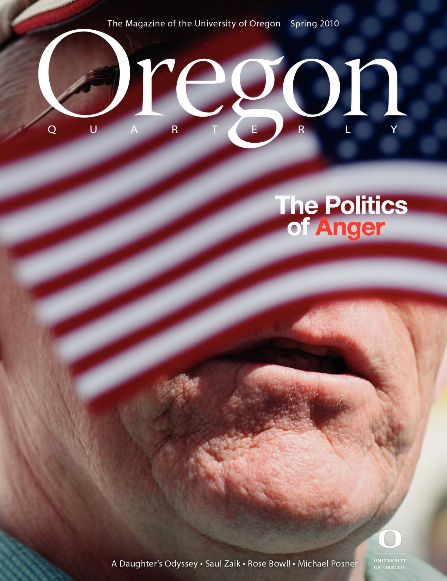 The cover of the Spring 2010 issue of Oregon Quarterly, featuring a cover story on "The Politics of Anger" and based on a photograph from a Tea Party protest